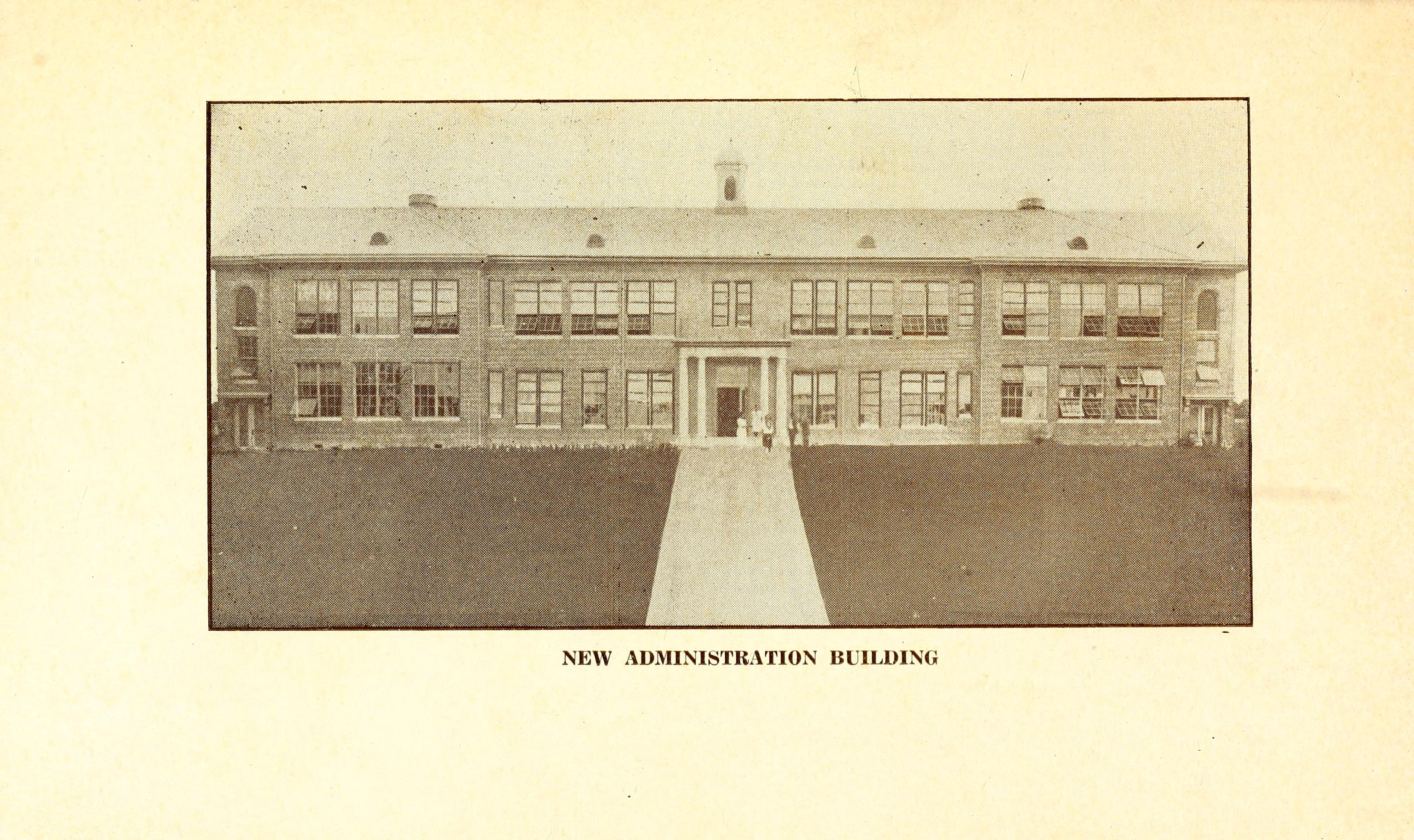 This image, taken from the 1923-1924 Annual Catalogue of the Elizabeth City State Colored Normal School (now Elizabeth City State University), shows the "Administration Building" as it appeared shortly after construction was completed. In 1927 it was dedicated as "Moore Hall," and has since retained that name.